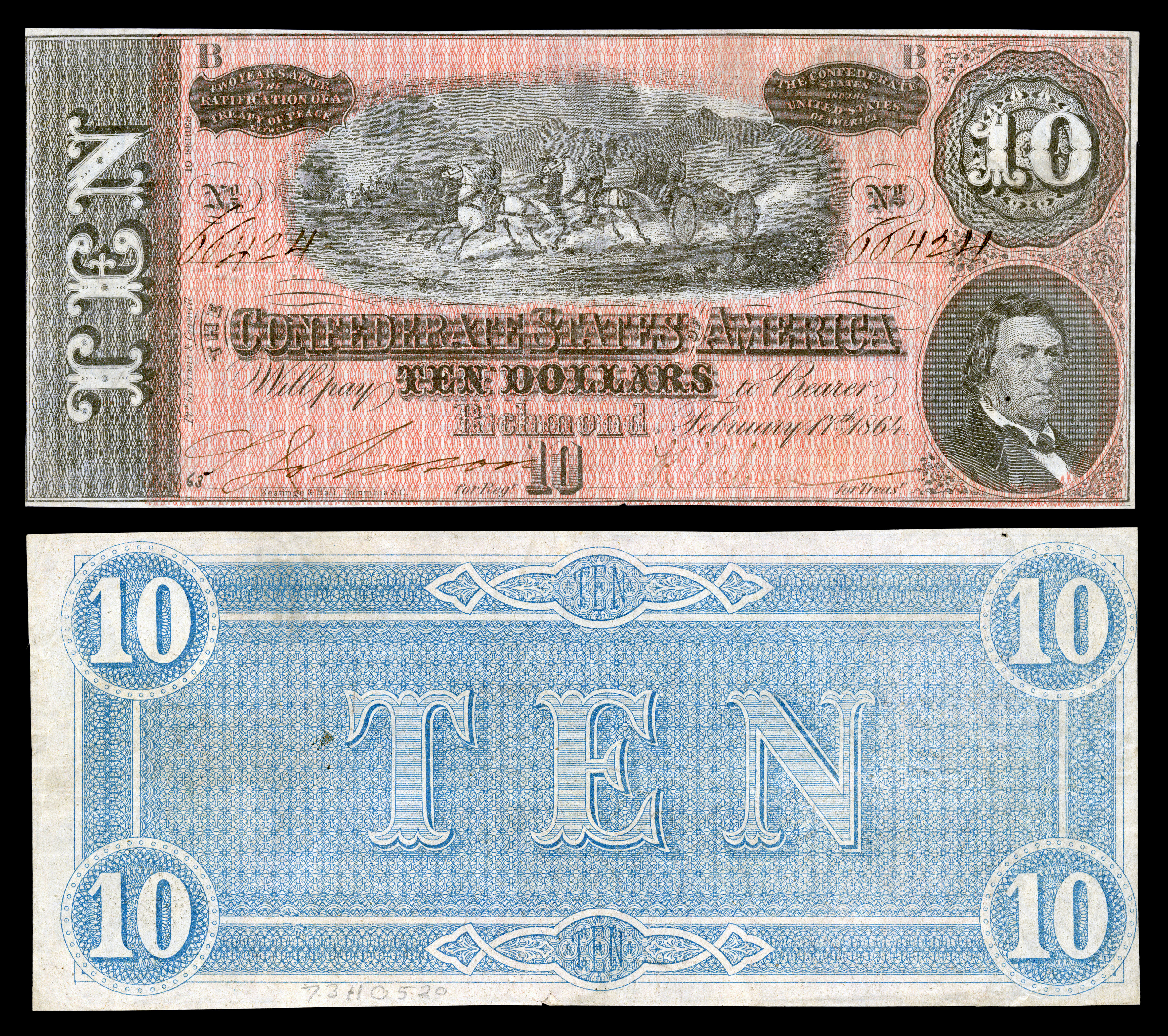 CSA-T68-$10-1864